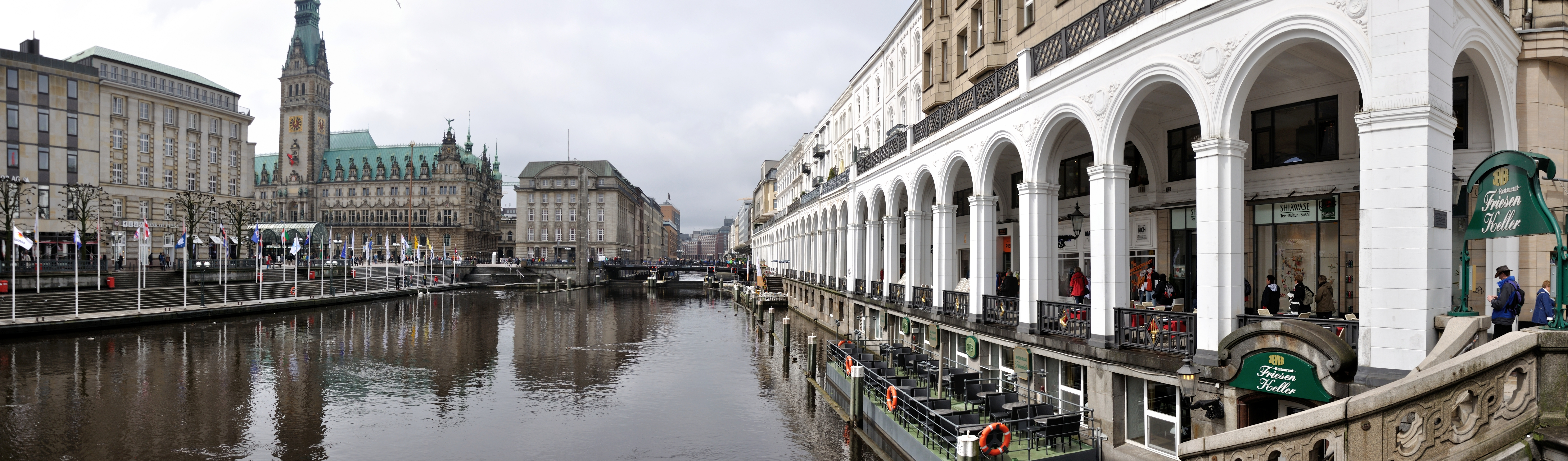 The city hall of Hamburg, Germany.